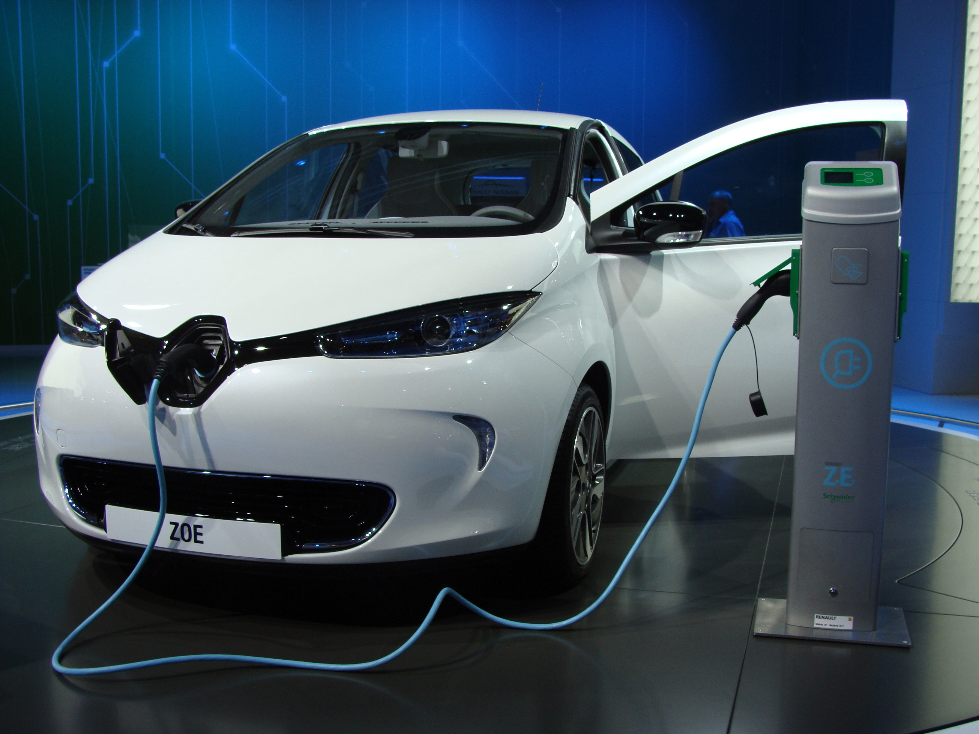 Renault Zoe on Moscow International Automobile Salon 2012.